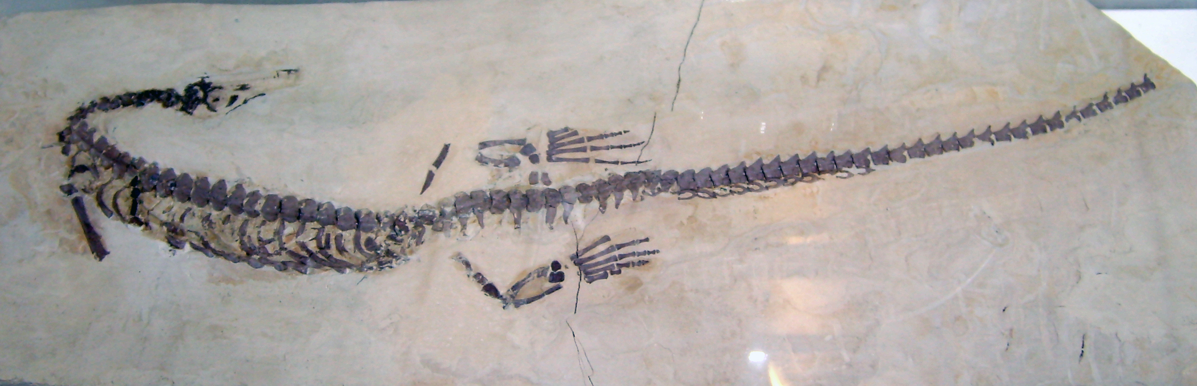 Mesosaurus fossil in limestone of the Irati Formation (Paraná Basin, Brazil) at the Geological Museum in Copenhagen